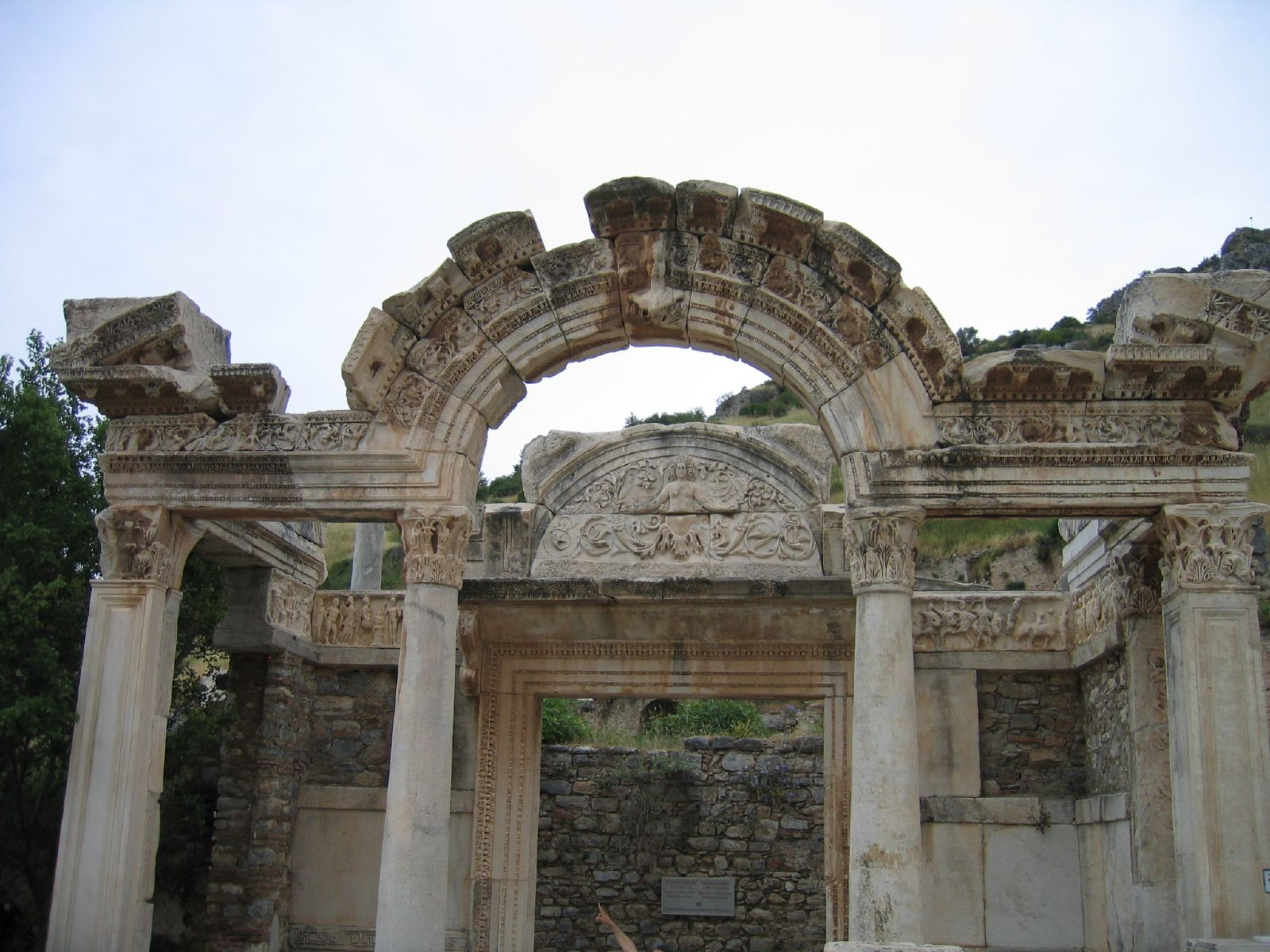 Temple of Hadrianus. After Theodosius restored the temple in 391 AD he opened it to the public in honour of his father, General Theodosius, who was hanged innocently. The ruins just infront of the temple were houses for the rich, and boarding houses, which have been unearthed recently in Ephesus.